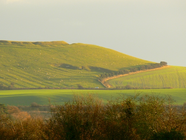 Liddington Castle, Liddington, Swindon The ramparts of the iron age hill fort can be seen at the highest point of the skyline. Sheep can be seen grazing in this south-facing view. An odd day weather-wise. Periods of rain and then late sun. The low angle of the light shows up the disused chalk-pits that appear on the 1:25K OS map.